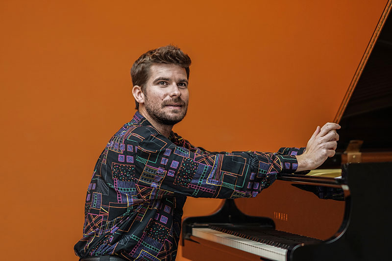 Marco Mezquida In Aarhus, Denmark 2018, performing with Pieris-trio, Jesper Bodilsen (b) and Martin Andersen (d).